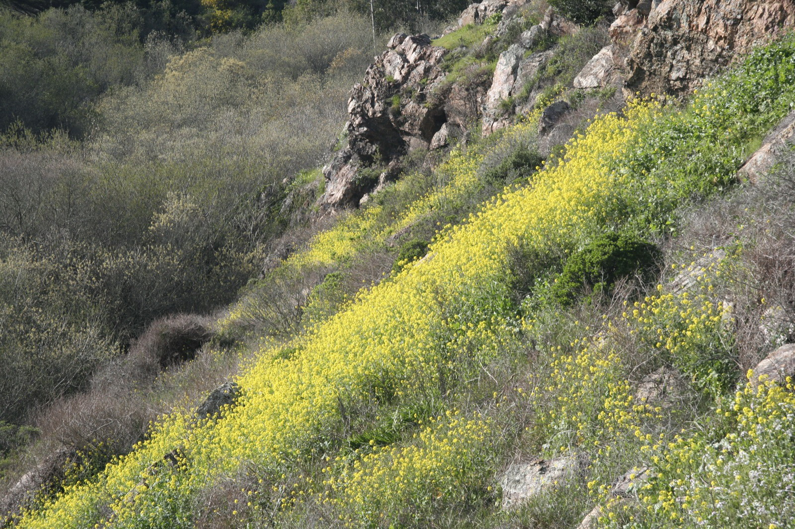 Spring in Glen Canyon Park, San Francisco, California, USA. Yellow-flowered field mustard plants cling to the steep canyon walls. Islais Creek and its willow thickets lie at their base.